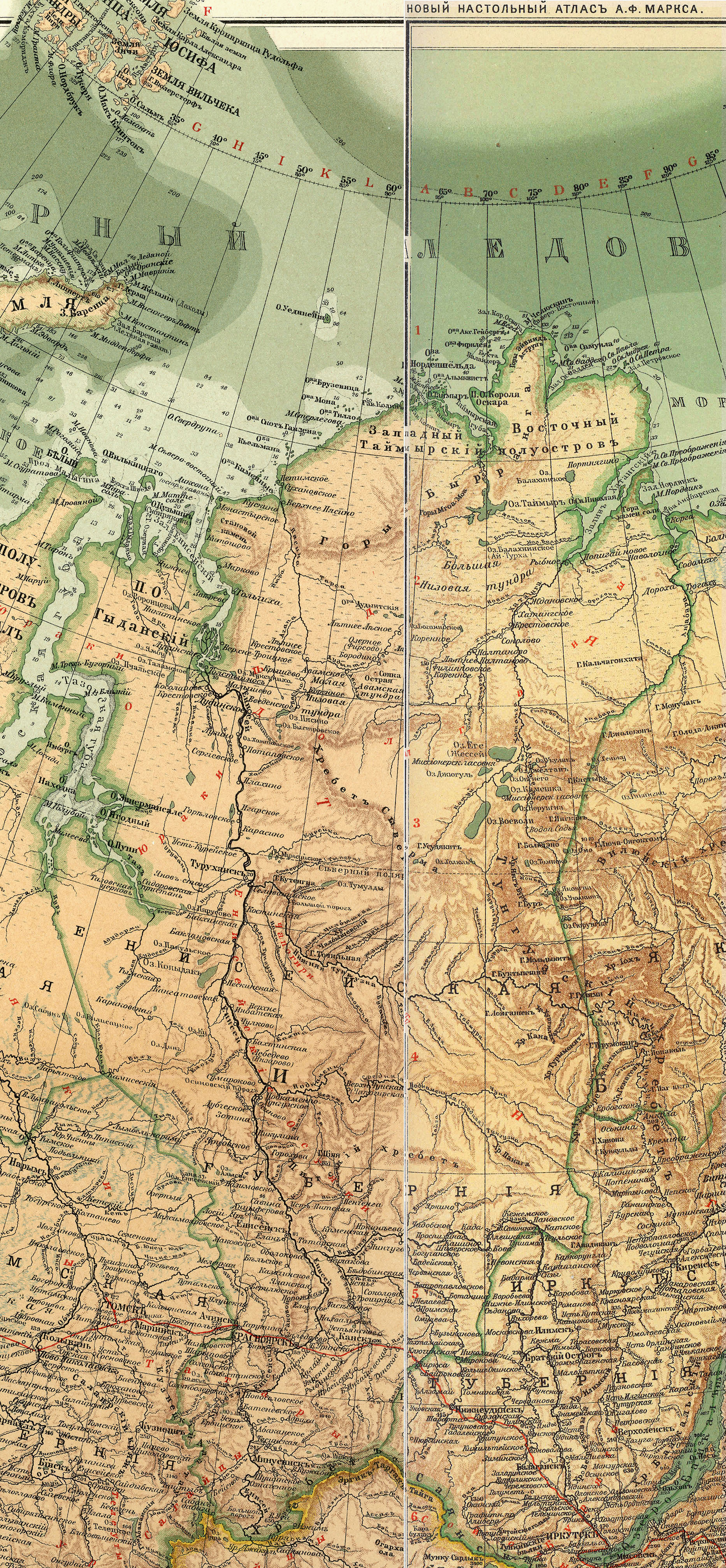 Map of Yeniseysk Governorate (Russian Empire)